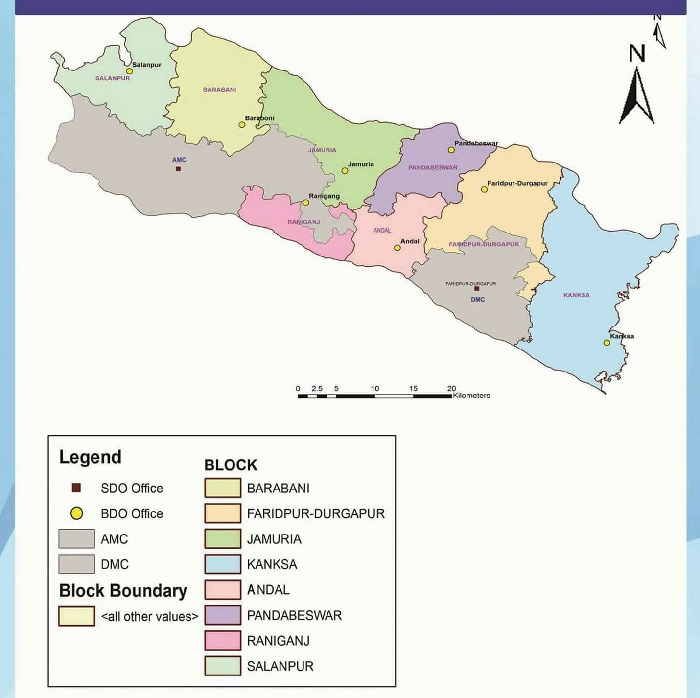 District Map